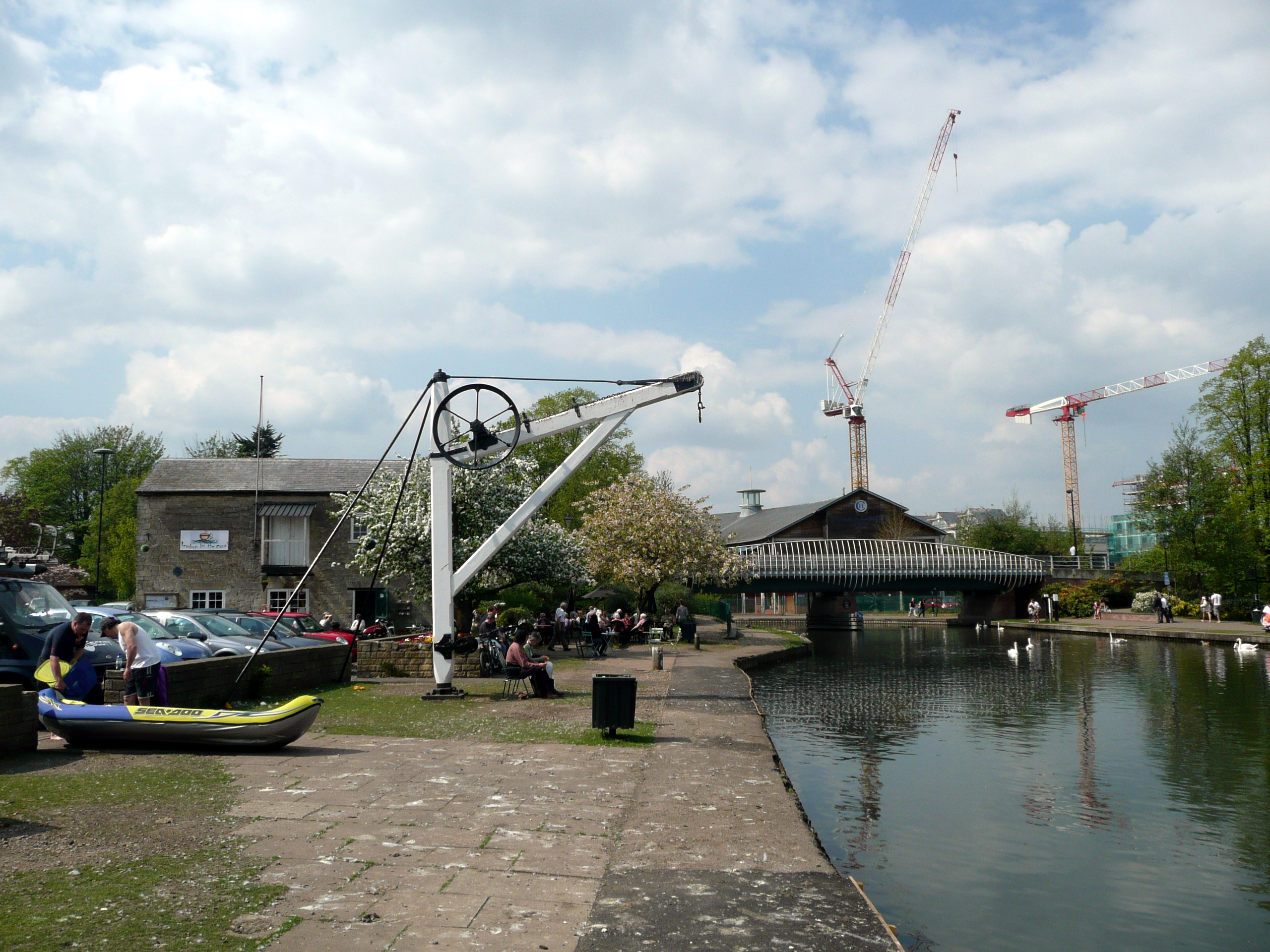 Mid 19th Century workshop and crane built for the Kennet & Avon Canal